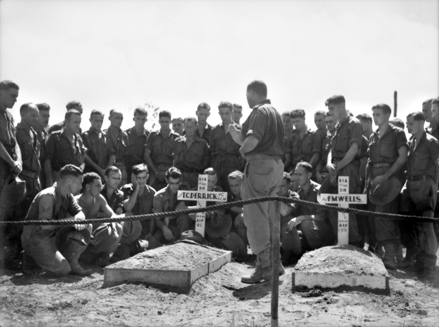 Men of the 2/48th Battalion gather around the grave of Lieutenant (Lt) T.C. Derrick VC DCM as Chaplain A. W. Bryson, the Roman Catholic chaplain of the 2/48th Battalion, conducts the funeral service at Lt Derrick's grave in the 2/48th Battalion cemetery off the Anzac Highway. Lt Derrick died of wounds received when attacking the Freda feature during the invasion of Tarakan Island by 26th Infantry Brigade on 1945-05-24. Buried beside Derrick is another soldier of the 2/48th Battalion, Private F.M. Wells, Church of England, who was also killed in action on 1945-05-24.